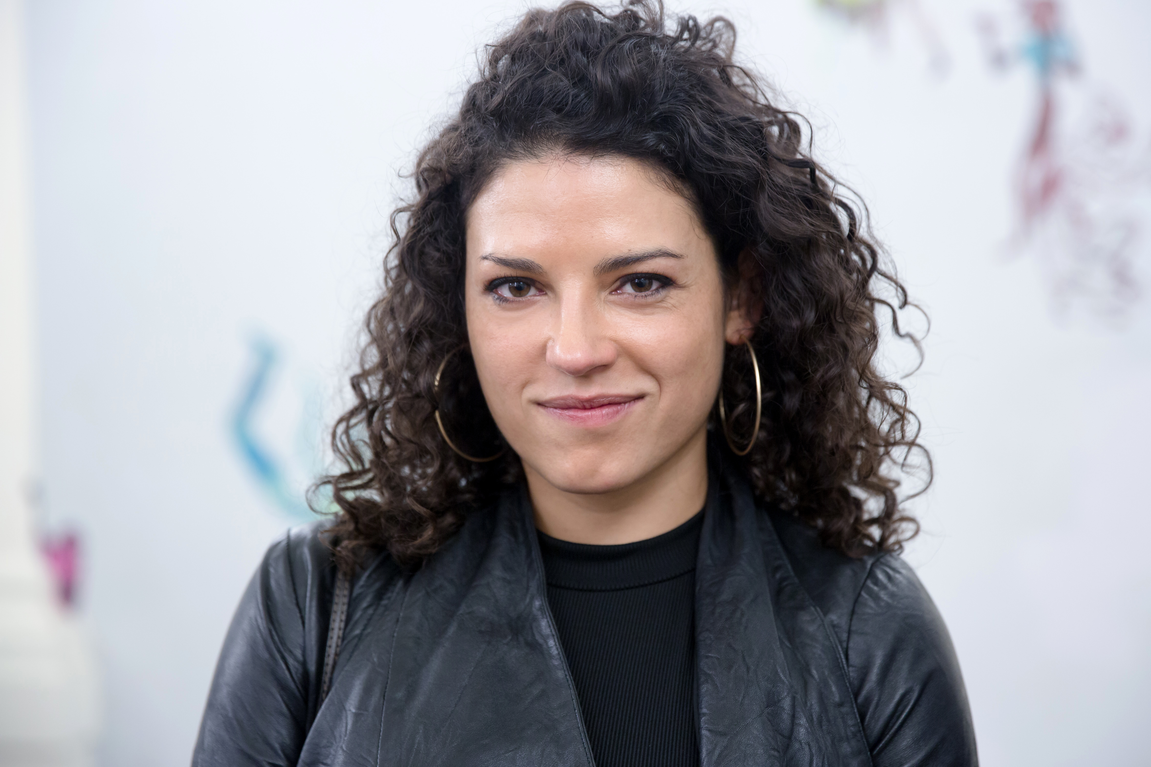 Claudia Kottal at the Nestroy Theatre Awards 2015 (Ronacher, Vienna, Austria).